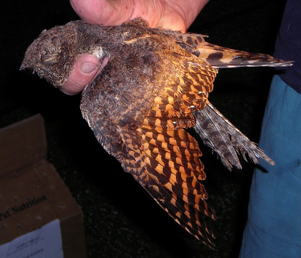 An immature Pennant-winged Nightjar captured in exhausted condition near Shamvura Camp, northern Namibia, Jan 13, 2007. Revived and later released. Mensural data: tarsus 20.0mm, culmen 20.5mm, wing 159mm, tail 112mm and mass 48.2g, i.e. very lean. Size comparable to European Nightjar. Immature, as it lacks the tawny collar, hardly shows the wing covert markings, has only slight scapular markings, and has rufous rather than buffy tips to the secondary remiges. Otherwise resembles an adult female PWN with remiges barred distinctly in rufous and brown. Probably male, due to thin tail barring and P1 being the longest remige. Wing shape distinct in having the distal primary (P1) longest besides absence of clear primary emargination. In adulthood the primaries and rectrices lack the white markings typical of Caprimulgus species. Readily confused with immatures of those species, which have similar though much finer barring.